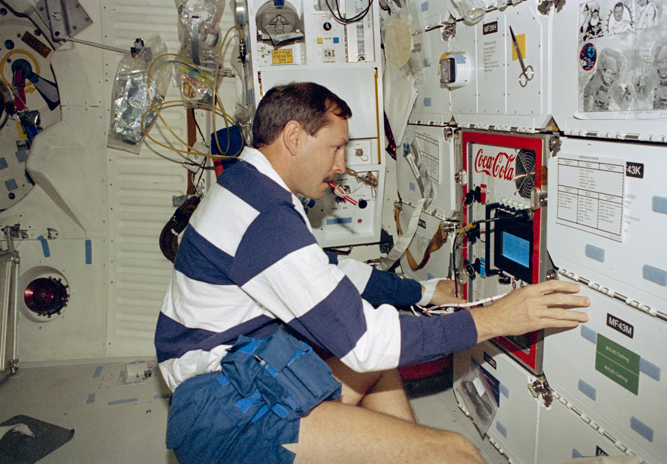 STS-77 pilot Curtis Brown prepares to activate the Fluids Generic Bioprocessing Apparatus (FGBA) 2, which is located on the Endeavour's middeck. Image ID: STS077-365-002